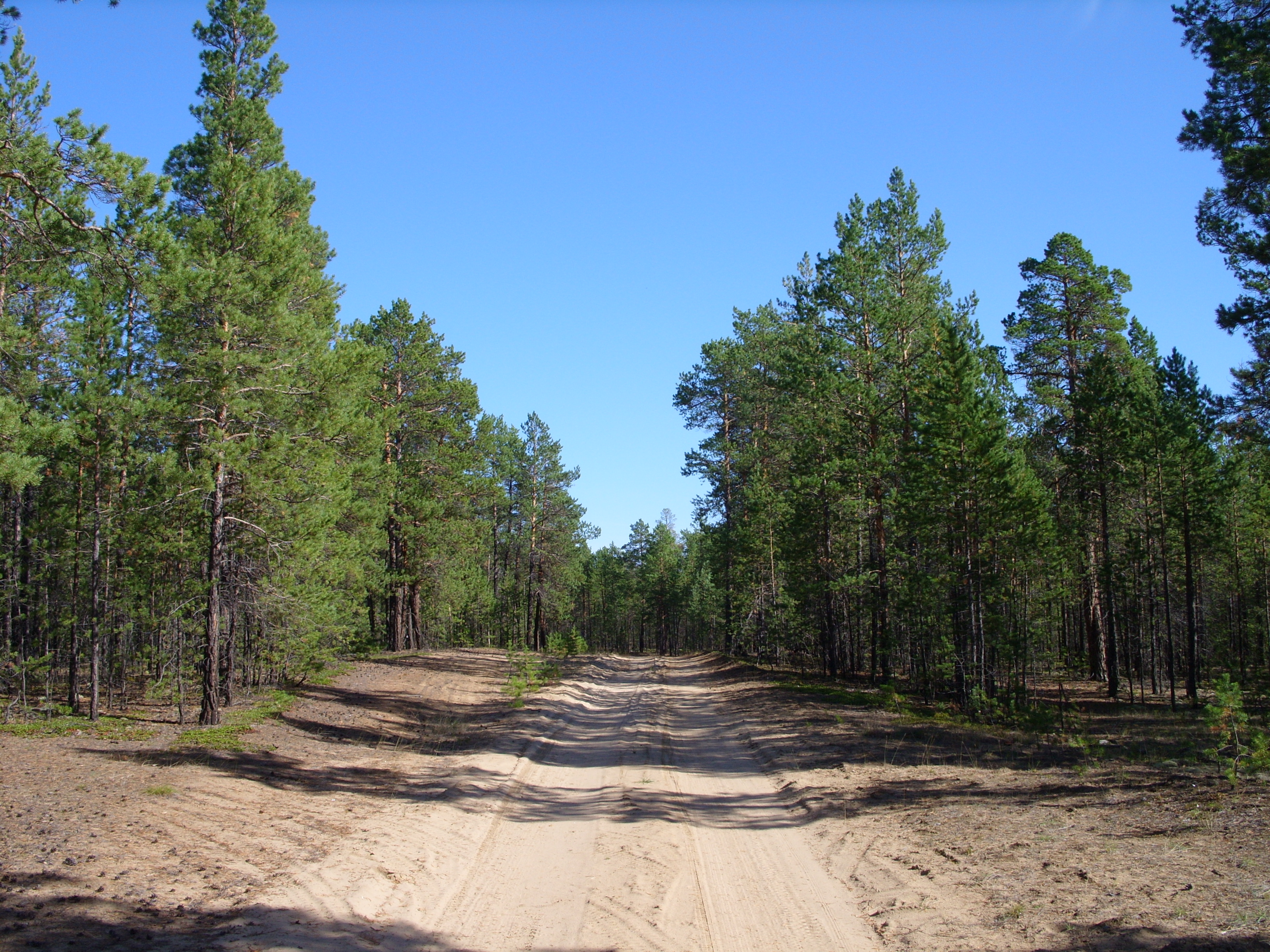 Pine forest and country road near Nizhny Bestyakh, Megino-Kangalassky District, Yakutia